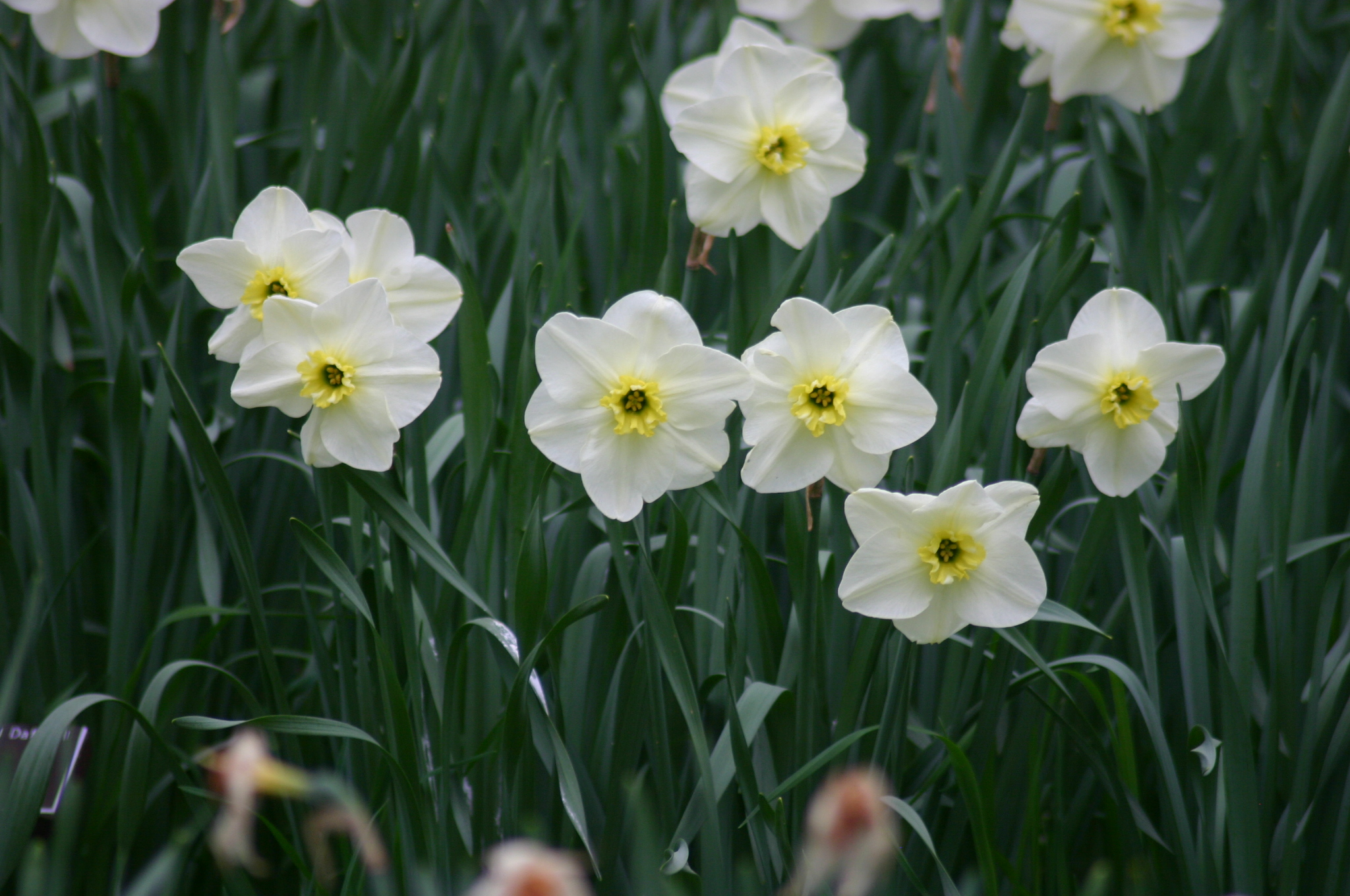 Narcissus 'Arguros'. Taken at the New York Botanical Gardens in the Bronx. Creative Commons licensed photo by ideonexus. Please feel free to use for any purpose!